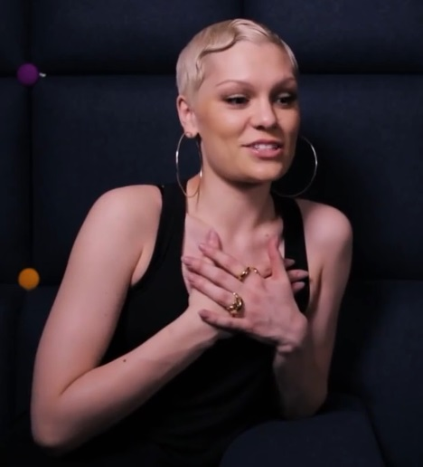 Jessie J interview Backstage at The O2